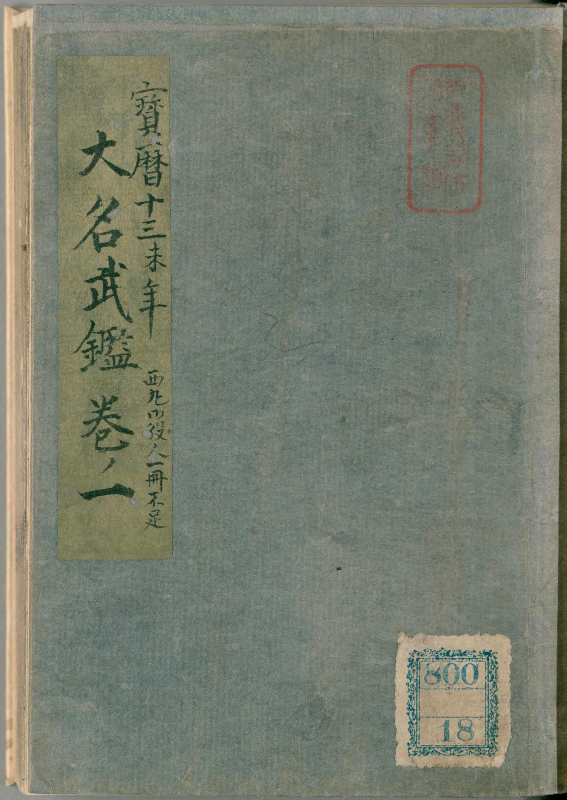 "Hōreki 13 nen Daimyō Bukan"